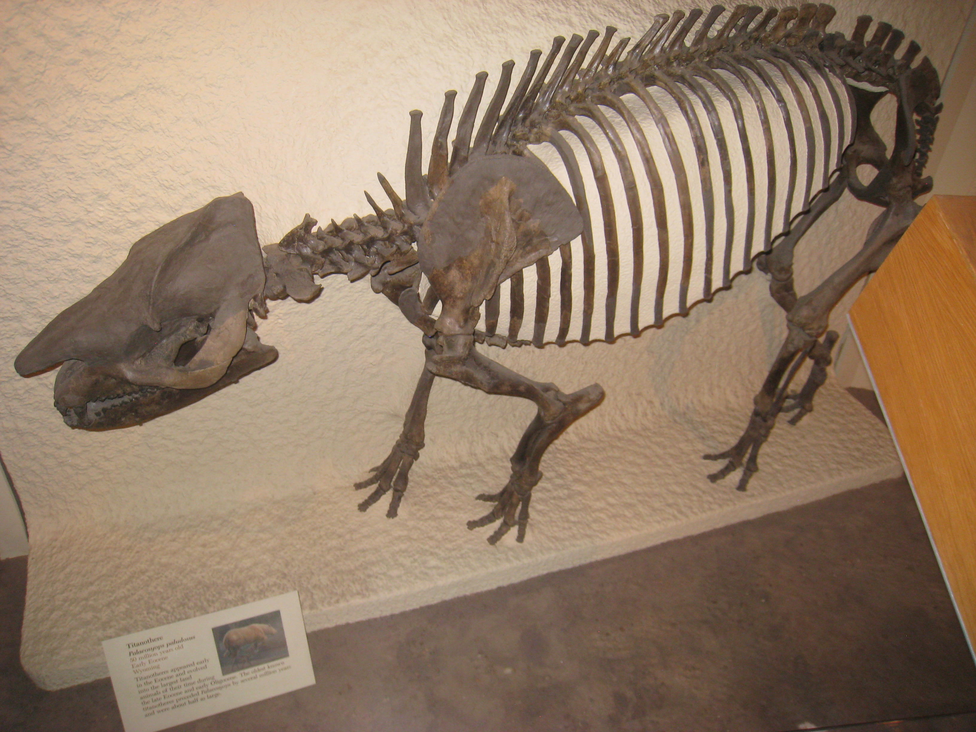 Paleosyops paludosus fossil specimen in the National Museum of Natural History, Smithsonian Institution, Washington, DC, USA.